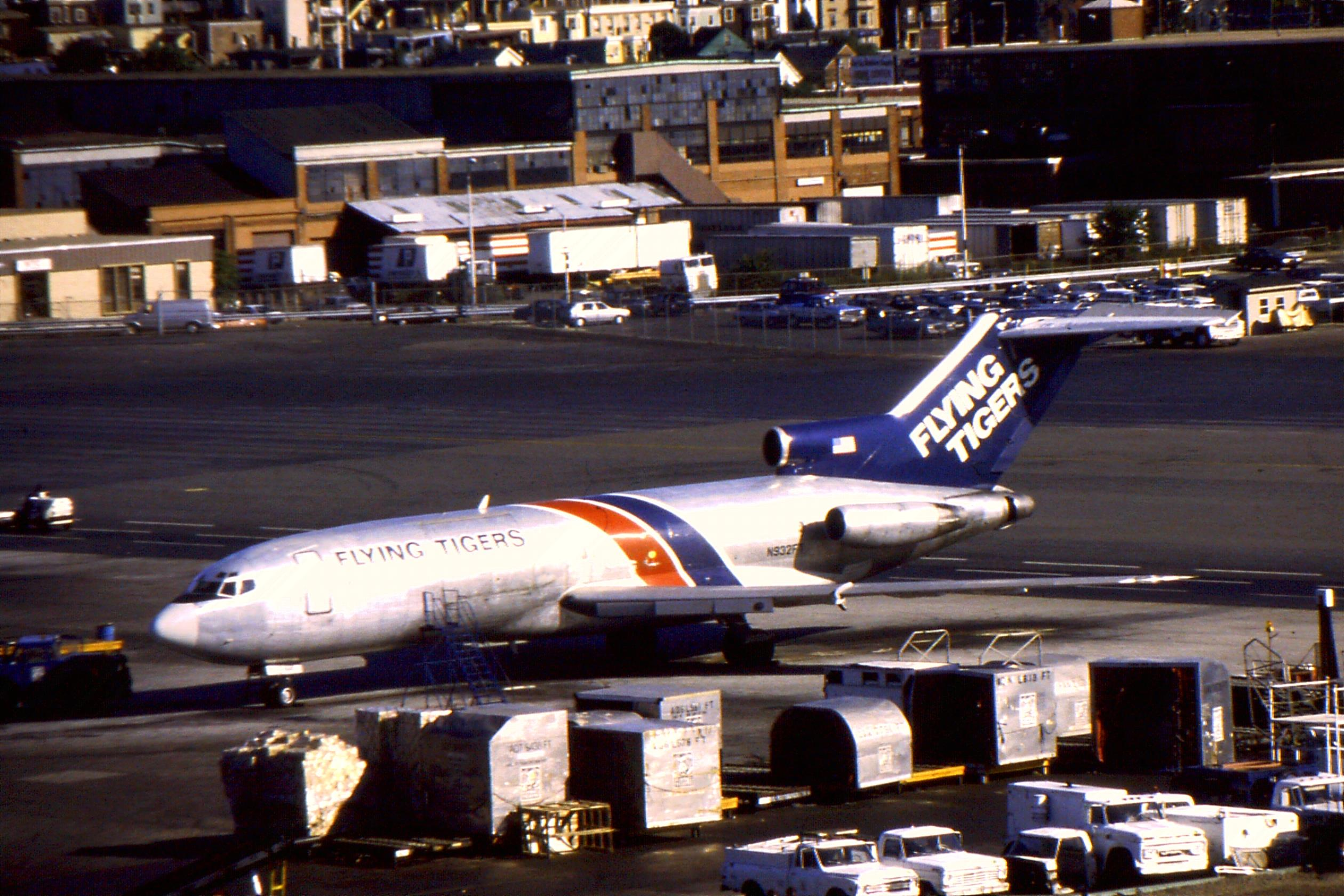 The view from my room at the Boston Airport Hilton - taken August 1987.